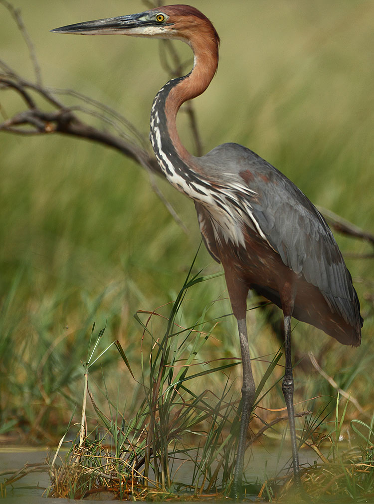 A Goliath Heron in Lake Baringo, Kenya.